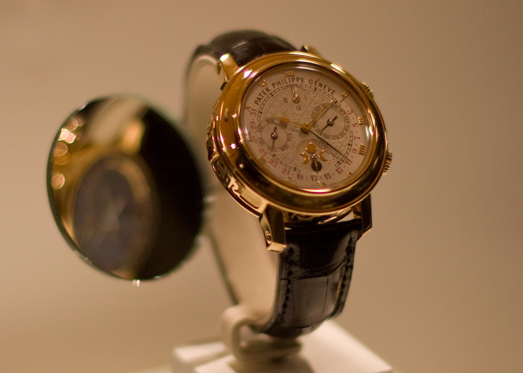 Tiffany's Patek Philippe Watch Collection, in New York, on the opening of their Patek Philippe watch store.